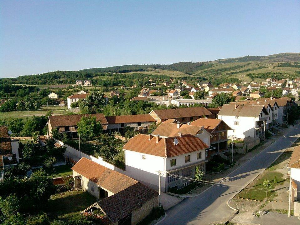 Overview of Biljača